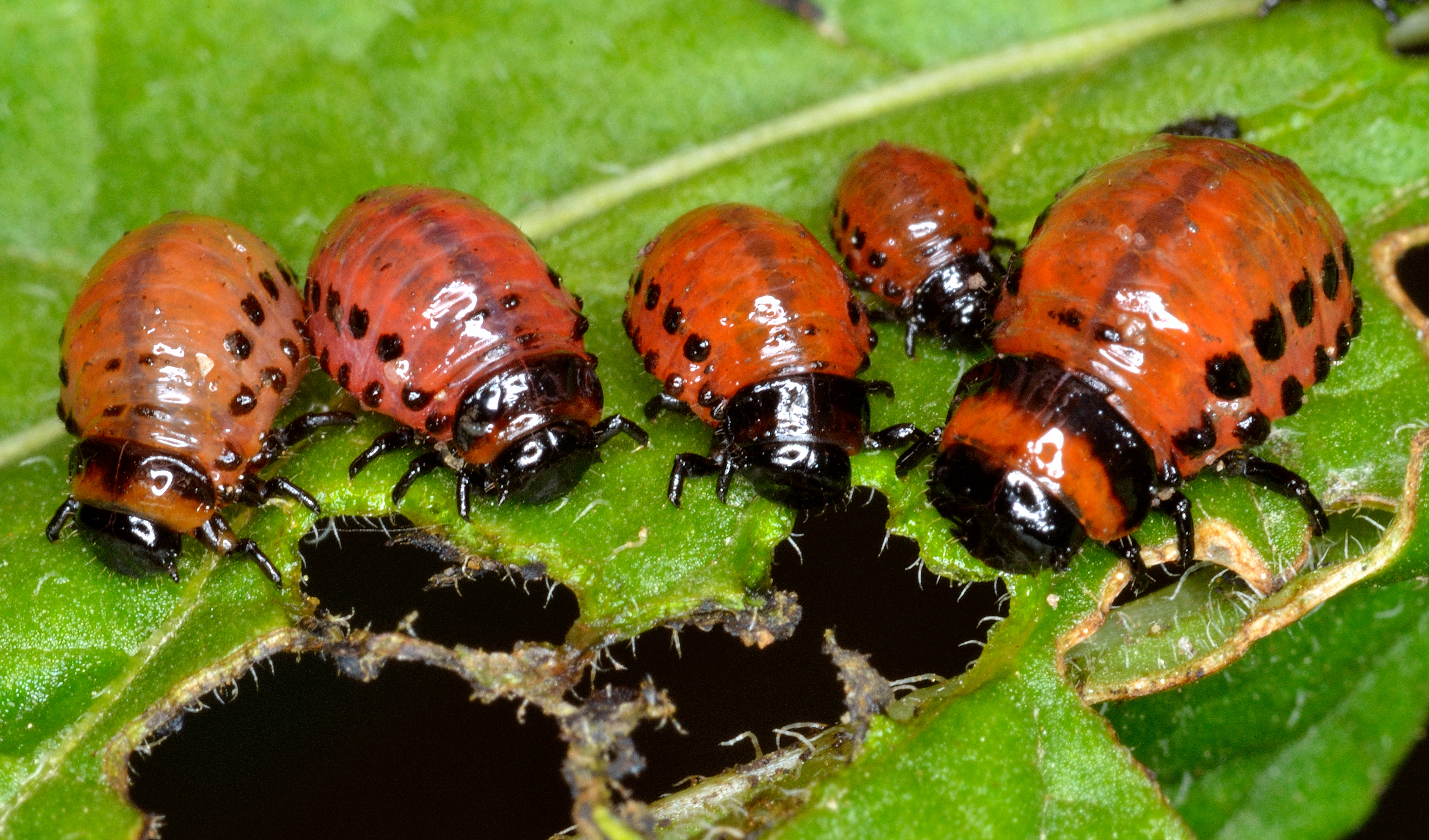 Colorado potato beetle larvas (Leptinotarsa decemlineata) eating potato leaves.